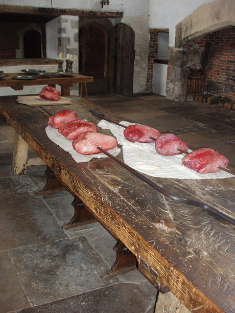 Meat on the spit display, Hampton Court kitchens There is an excellent tour of the kitchens at Hampton Court, and the audio guide has information from experimental food historians who have reproduced the Tudor period cooking methods. This display shows how meat was roasted in the fireplaces on the right. Part of the display shows how the cooked meat would have looked after carving. They say that 75% of the food intake by Henry VIII and his courtiers was meat.